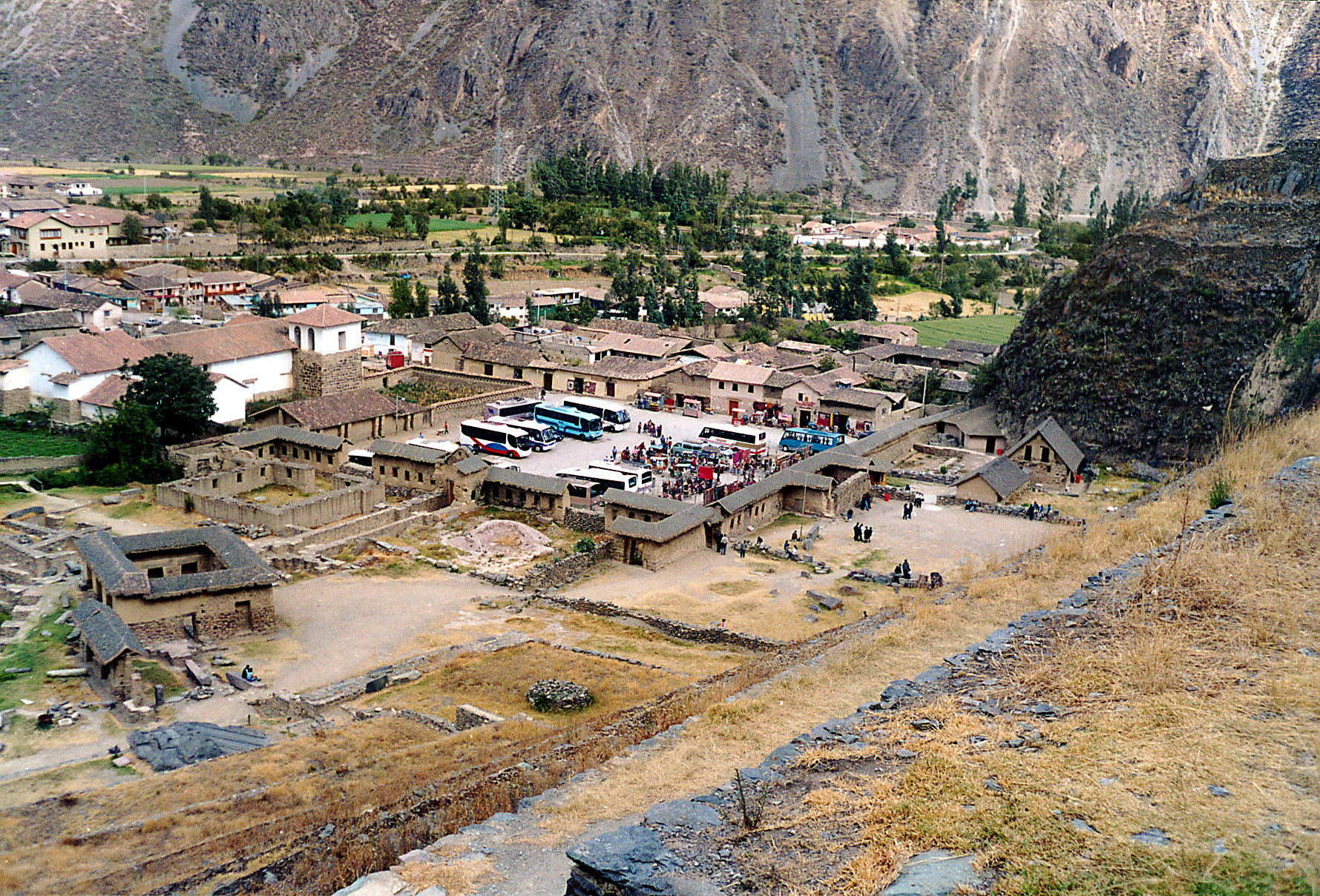 Ollantaytambo, Peru. The photo was taken in 2002 by Håkan Svensson (Xauxa).